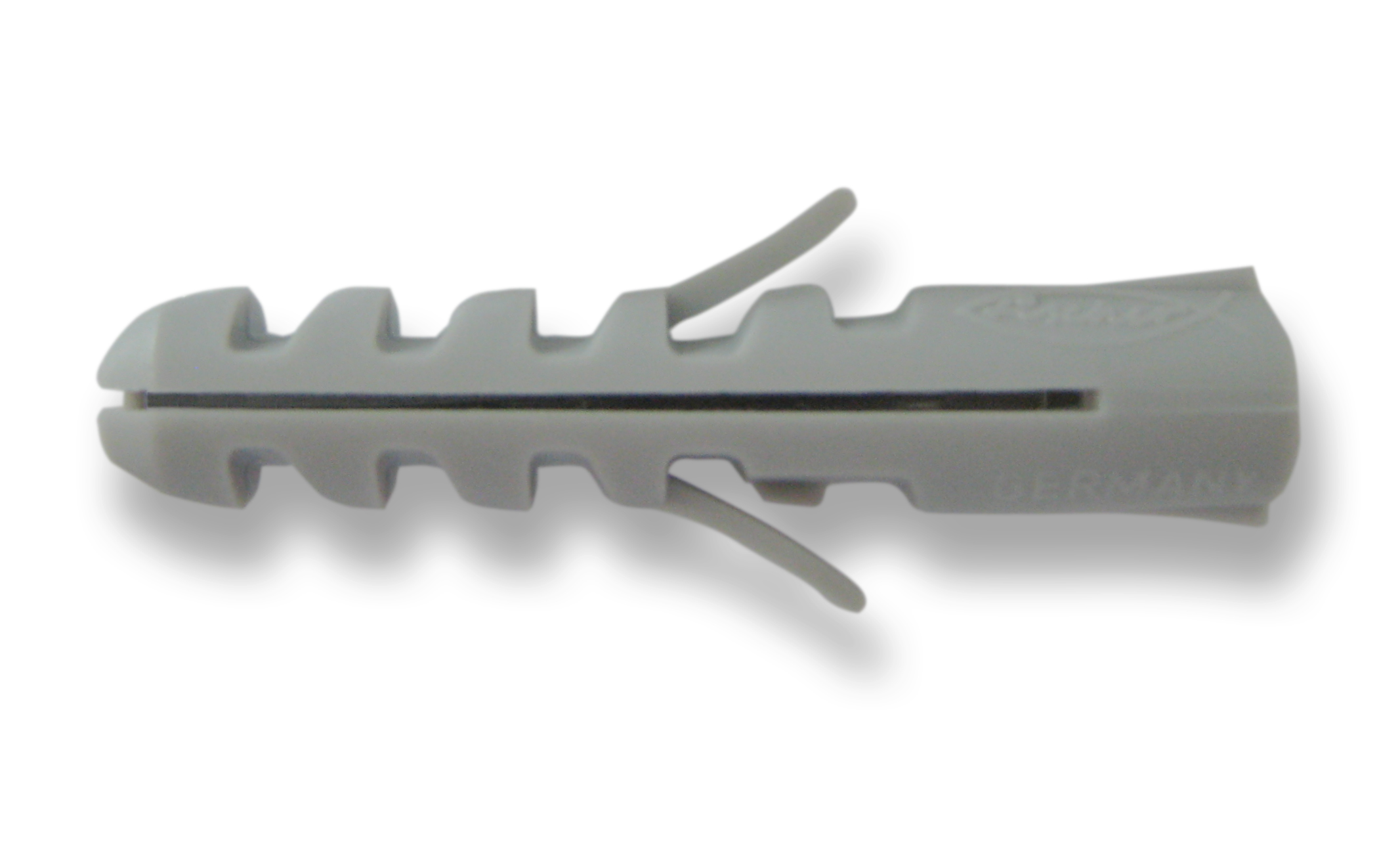 The fischer S-Plug, the first nylon wallplug.